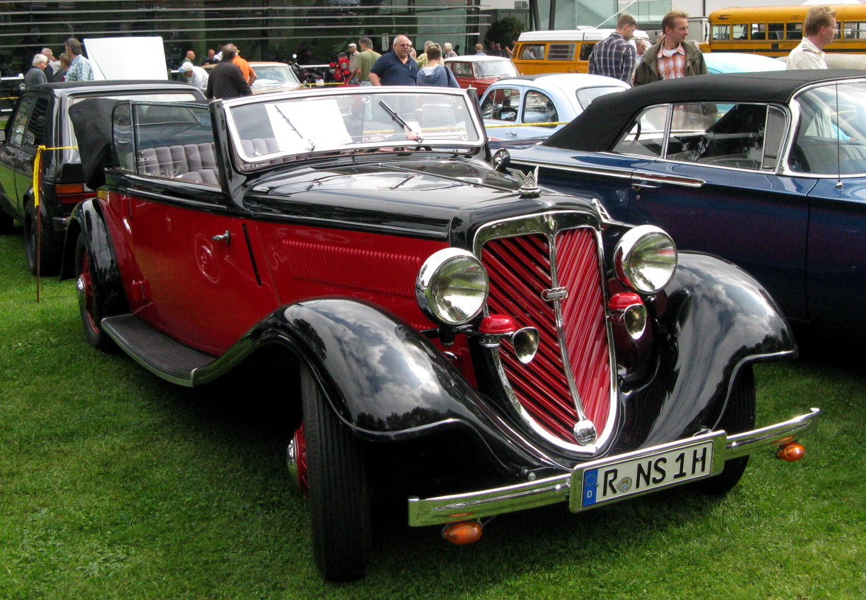 Wanderer W22 at vintage vehicles show in Fürstenfeld (Bavaria)